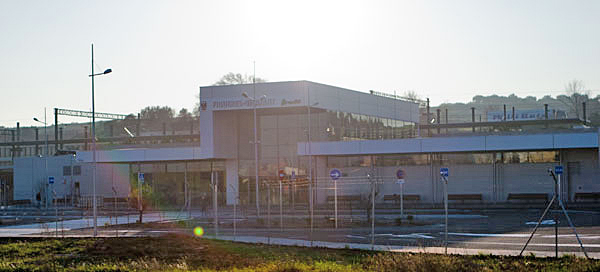 Exterior of the Figueres-Vilafant railway station